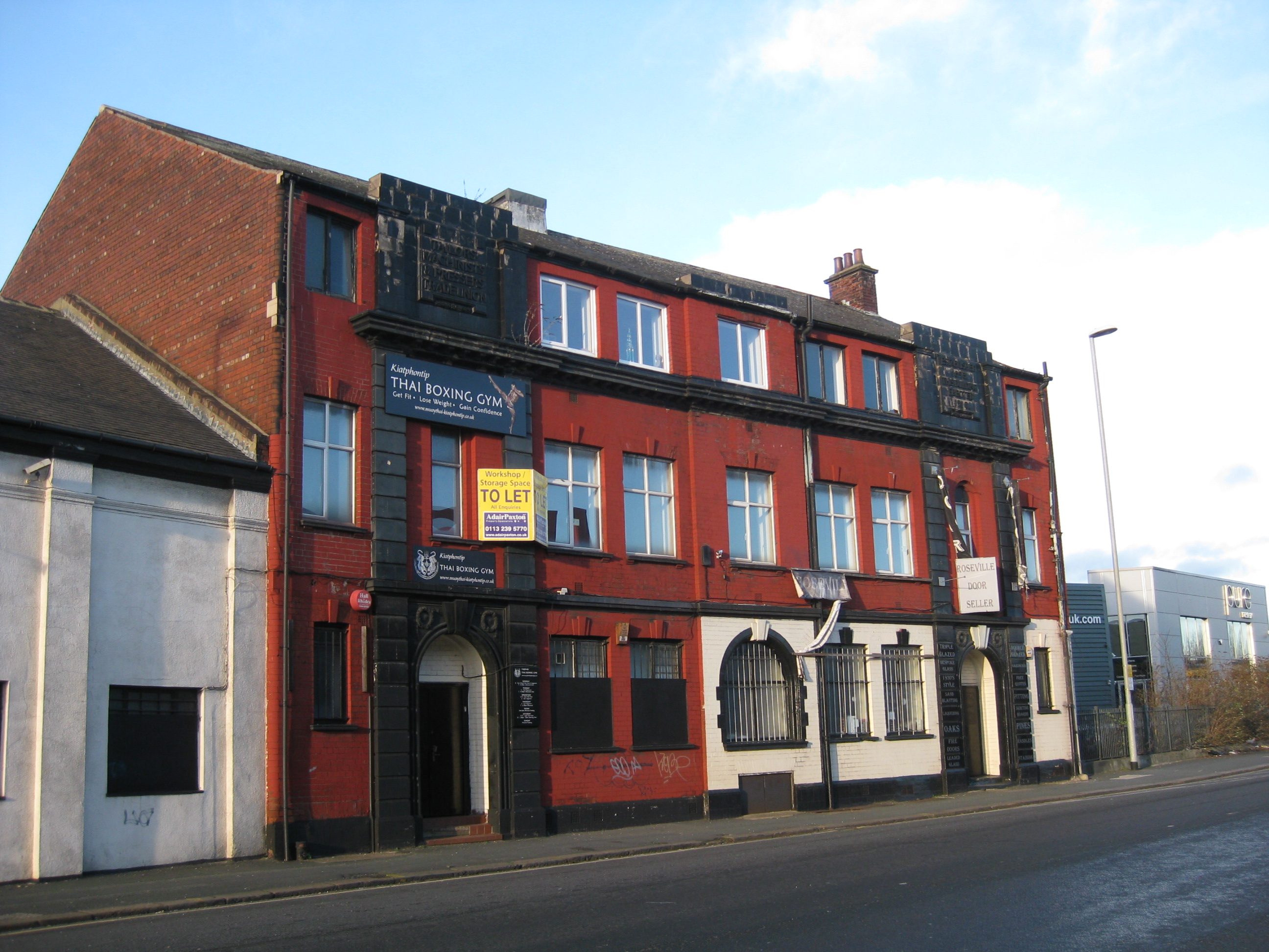 Tailors' Machinists & Pressers' Trade Union building, Stamford House, 25 Cross Stamford St, Leeds LS7 1BA. Home of the first Jewish Trade Union in Leeds. Now a gym and commercial premises.